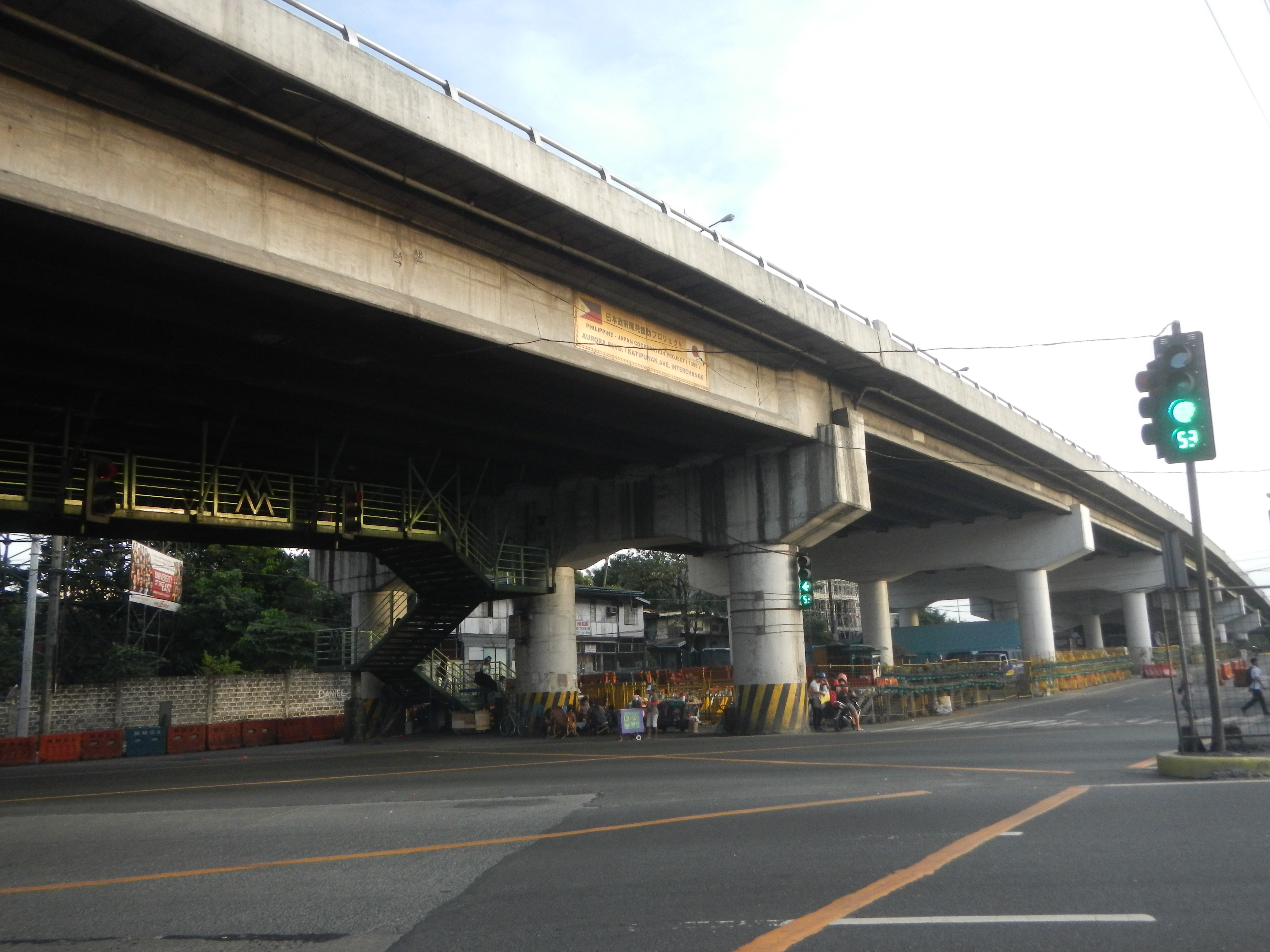 Aurora Boulevard - Katipunan Avenue Interchange (Philippine - Japan Cooperation Project, 1995, Loyola Heights, Quezon City) Katipunan_Avenue Loyola Heights Katipunan Avenue Service Road North and South Bound and President Carlos P. Garcia Avenue (C-5) Circumferential_Road_5 Katipunan LRT Station South Entrance Exterior of the MRT-2 Katipunan Station Entrance List of barangays of Metro Manila, Legislative districts of Quezon City Districts 3, Barangays of Quezon City, Barangay Loyola Heights (Katipunan), Quezon City along Katipunan Avenue corner Aurora Boulevard (Note: Judge Florentino Floro, the owner, to repeat, Donor Florentino Floro of all these photos hereby donate gratuitously, freely and unconditionally all these photos to and for Wikimedia Commons, exclusively, for public use of the public domain, and again without any condition whatsoever).